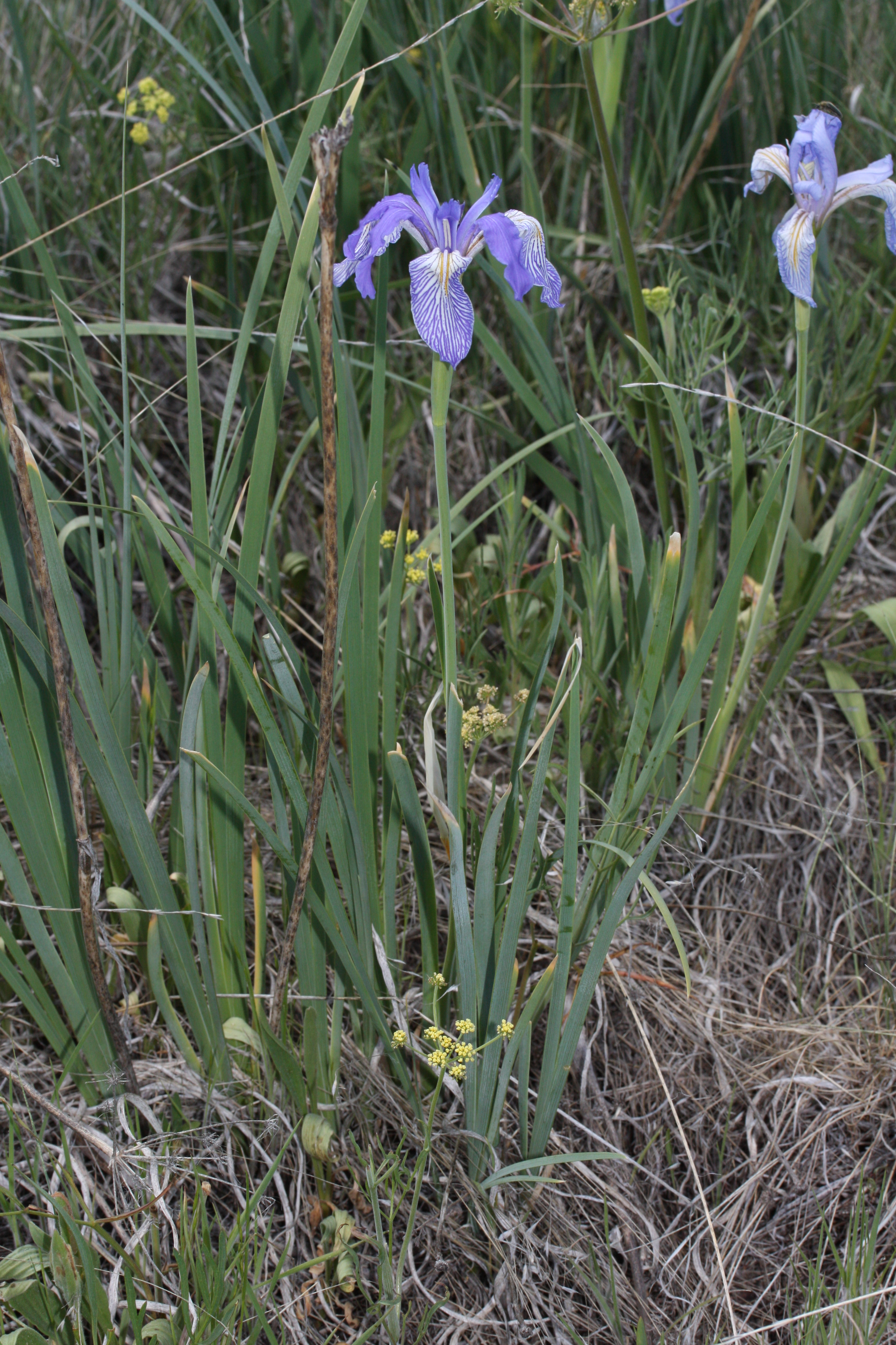 Rocky Mountain Iris, Western Blue Flag